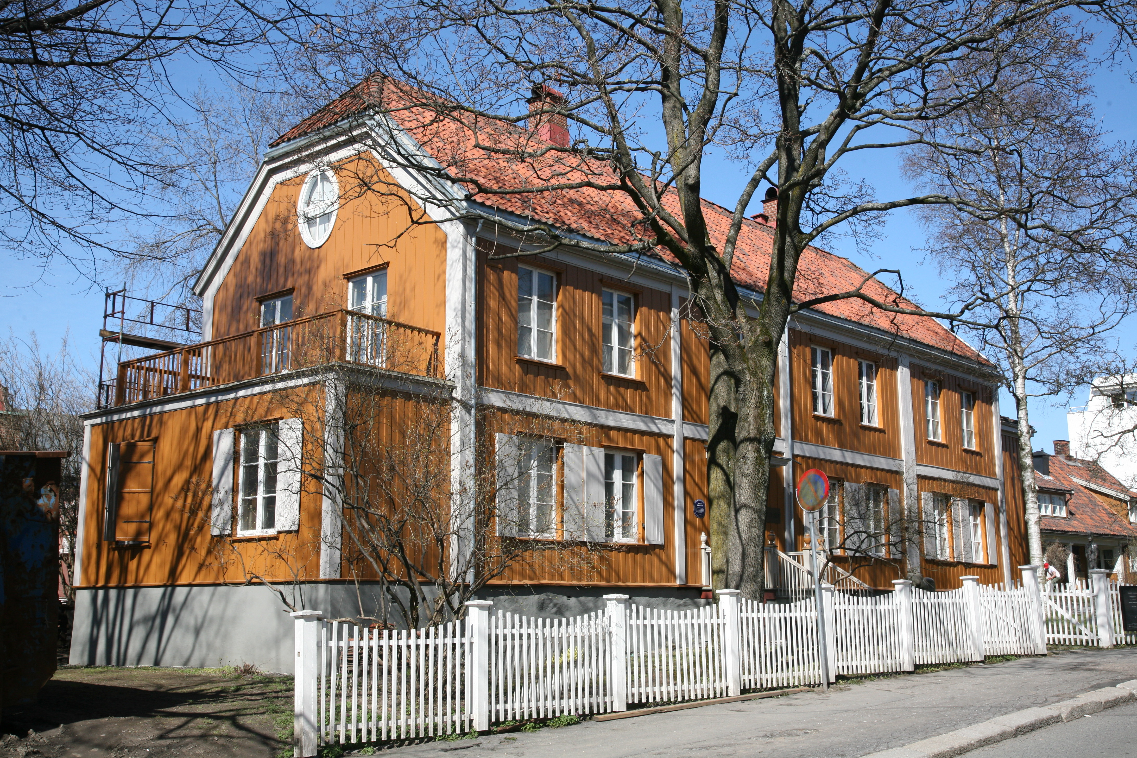 Main building of Lille Frogner in Lille Frogner Alle In Oslo. Building is from the 1790s. Was buildt by Generalkrigskommissær Friedrich Gotschalck Haxthausen. The building is listed.